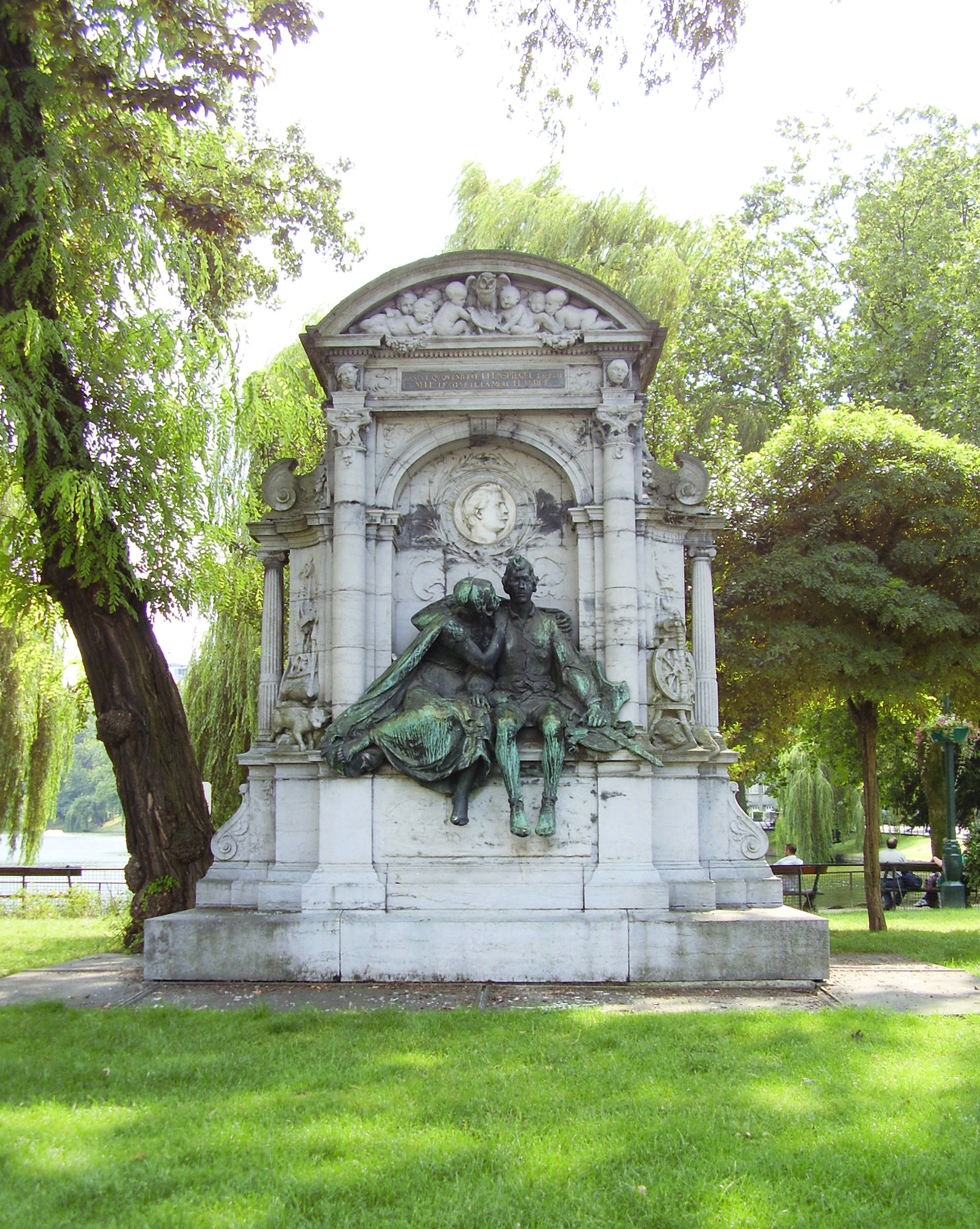 Description: Monument à Charles De Coster (Till Eulenspiegel), place Flagey, Ixelles (Bruxelles) Author: User:Ben2 photo Date of creation: 05 Août 2006 Source: Photo personnelle